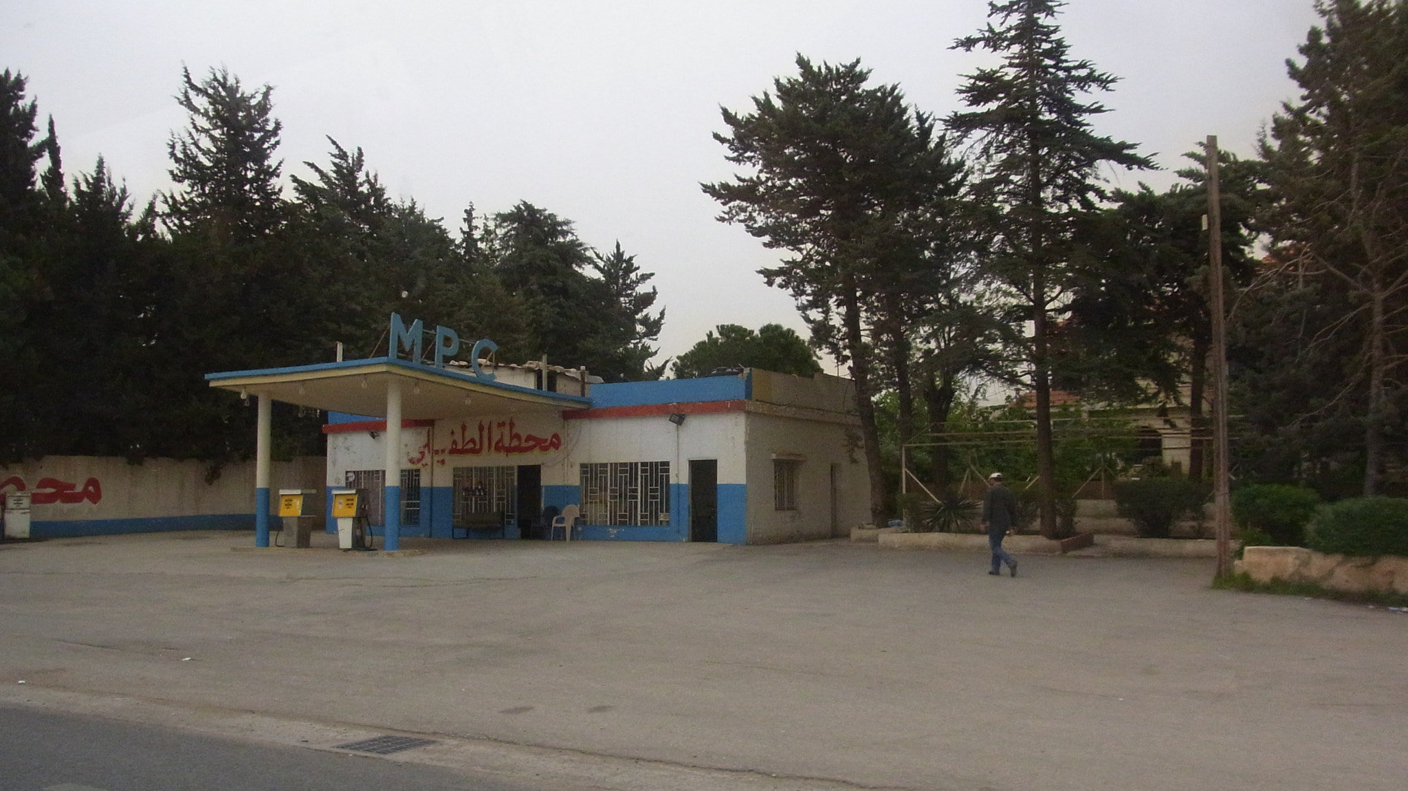 500px provided description: Gorgeous old benzene station in Baalbek, Lebanon. [#Petrol ,#Time Warp ,#Leave It Alone]